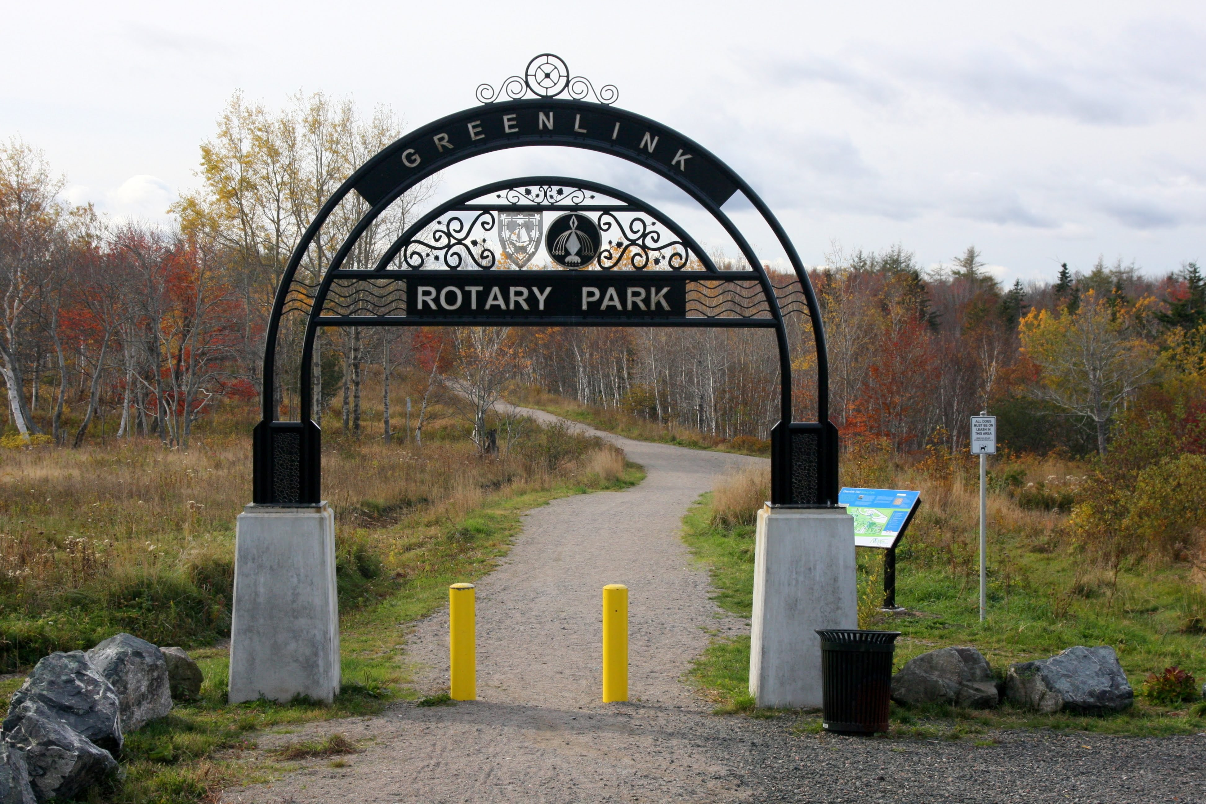 Rotary Park - GreenLink Trails, Sydney, NS - Rotary Drive Entrance Greenlink Rotary Park Trail System is a Canadian urban park located in Sydney, part of Nova Scotia's Cape Breton Regional Municipality. Greenlink Trail System is a series of 2.5 to 3 metres (8 to 10 ft) wide crushed limestone paths suitable for walkers and cyclists. The gravel surfaces are not suitable for wheelchairs or strollers. The paths meander through a scenic natural area bordering Wentworth Creek (Reservoir Brook, also know as Sullivan's Brook) and a historic water reservoir with a stone dam and waterfall. The paths are not illuminated at night. Benches have been provided along the paths for resting, signs and interpretive displays for information. The trail system connects Sydney’s Shipyard and South End neighbourhoods to Membertou First Nation and the Cape Breton Regional Hospital. Two of the trails system progress from Shandwick Street and the St. Anthony Daniel Ball Park. Both trails converge with the trail from Rotary Drive, cross Churchill Drive, and extend to the Cape Breton Regional Hospital property.